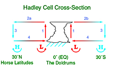 Hadley cell cross-section. The Hadley cell is one of three atmospheric circulation cells which transport heat poleward and drive Earth's weather. Created with Photoshop. 2004 D. Windrim